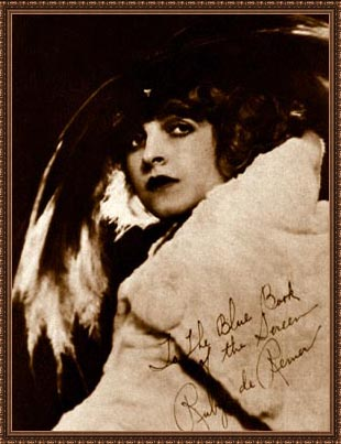 Publicity photo of Rubye De Remer from The Blue Book of the Screen by Ruth Wing, editor